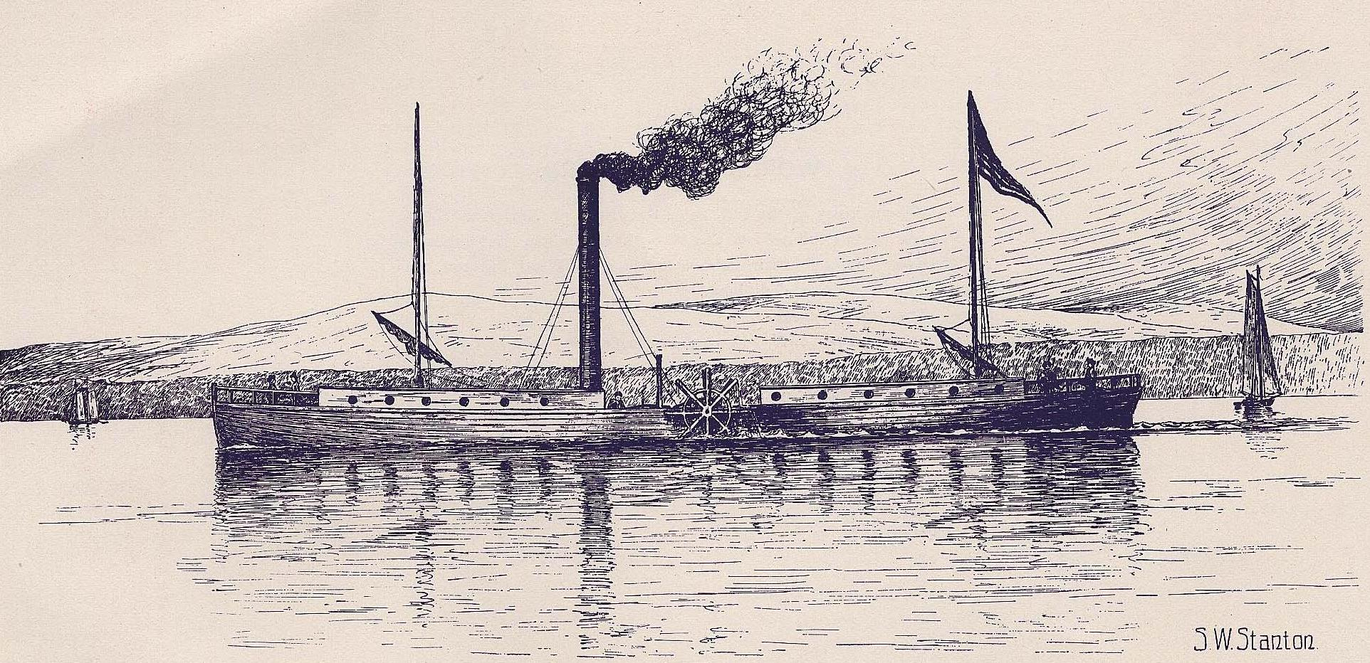 Clermont, or North Star first commercially successful steamboat in North America, 1807. Operated on the Hudson River between New York City and Albany.